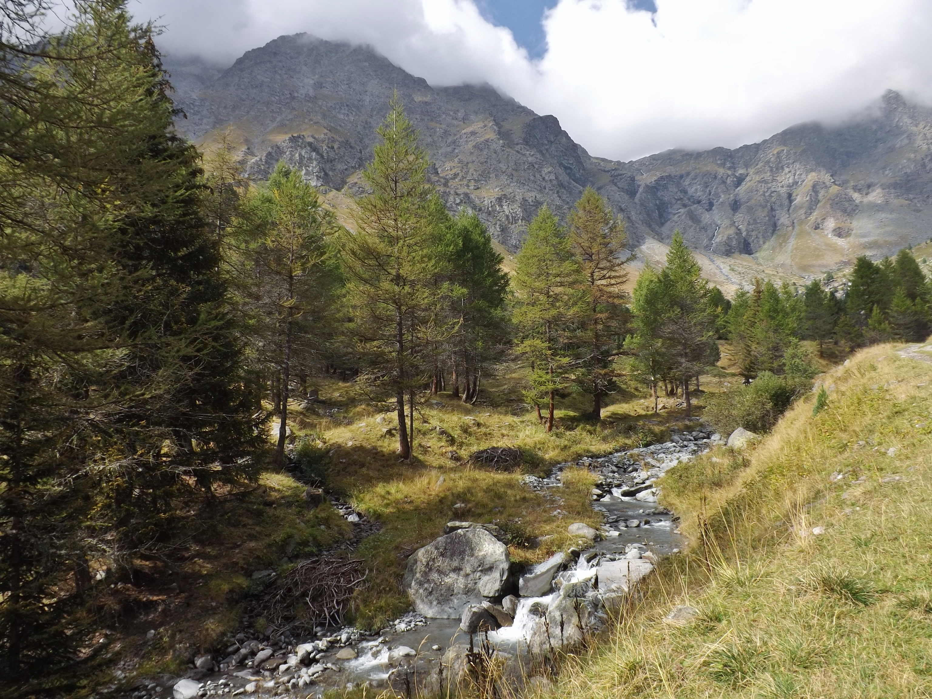 Sight of the Saint-Bernard stream, separating both communes of Modane and Saint-André (on the other side), at the foot of Polset peak, at the South of the Vanoise national park, in Savoie, France.